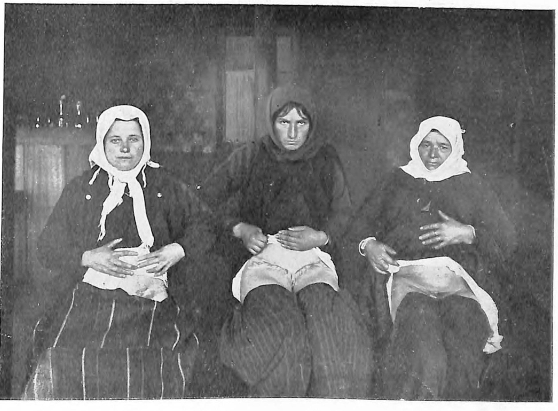 Women from Toplica showing the scars they received as result of being branded by Bulgarian soldiers.